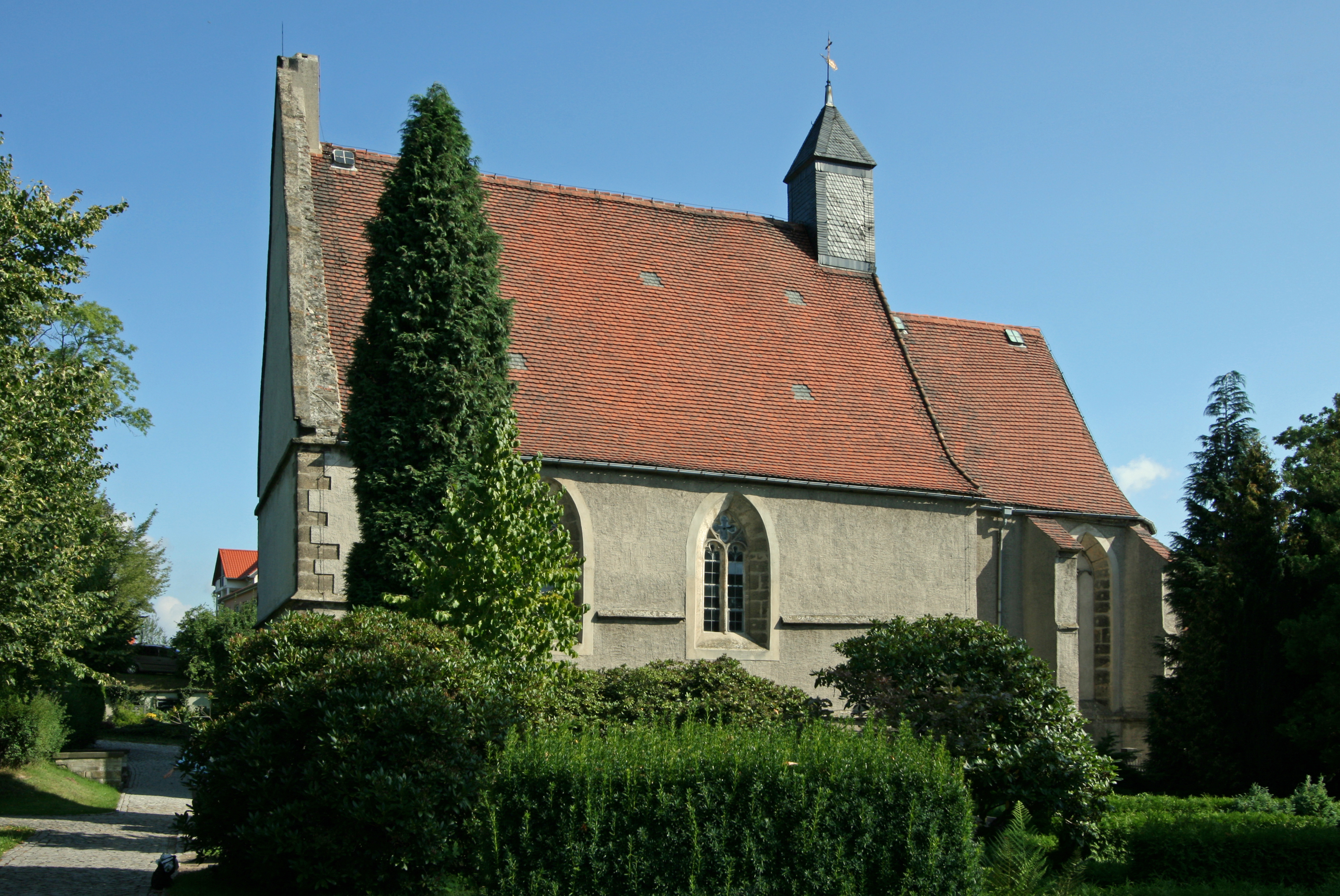 Kamenz (Germany, Saxony), church St. Just